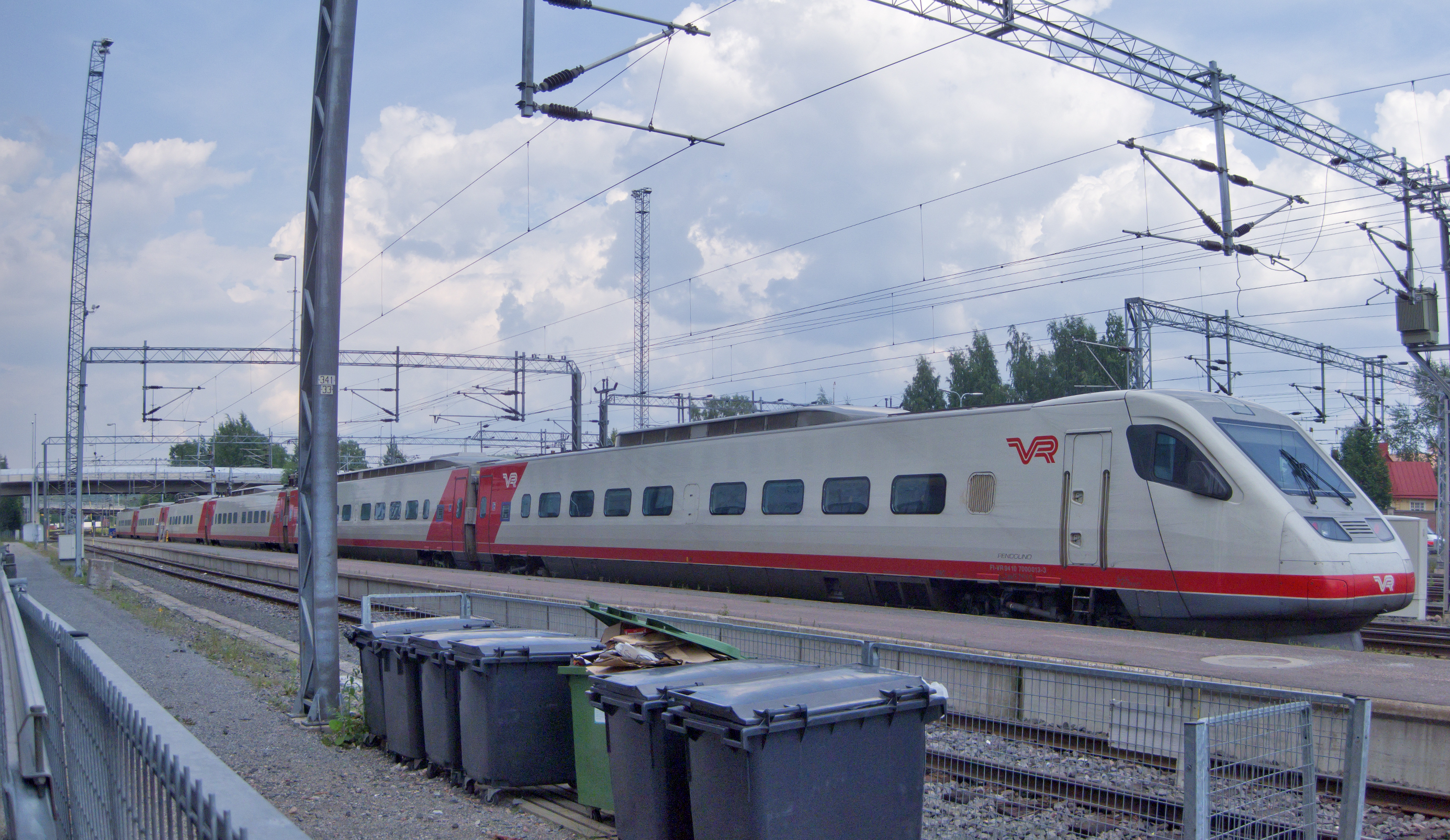 A VR Class Sm3 Pendolino train (unit 7x13) at a service platform at Jyväskylä, Finland.